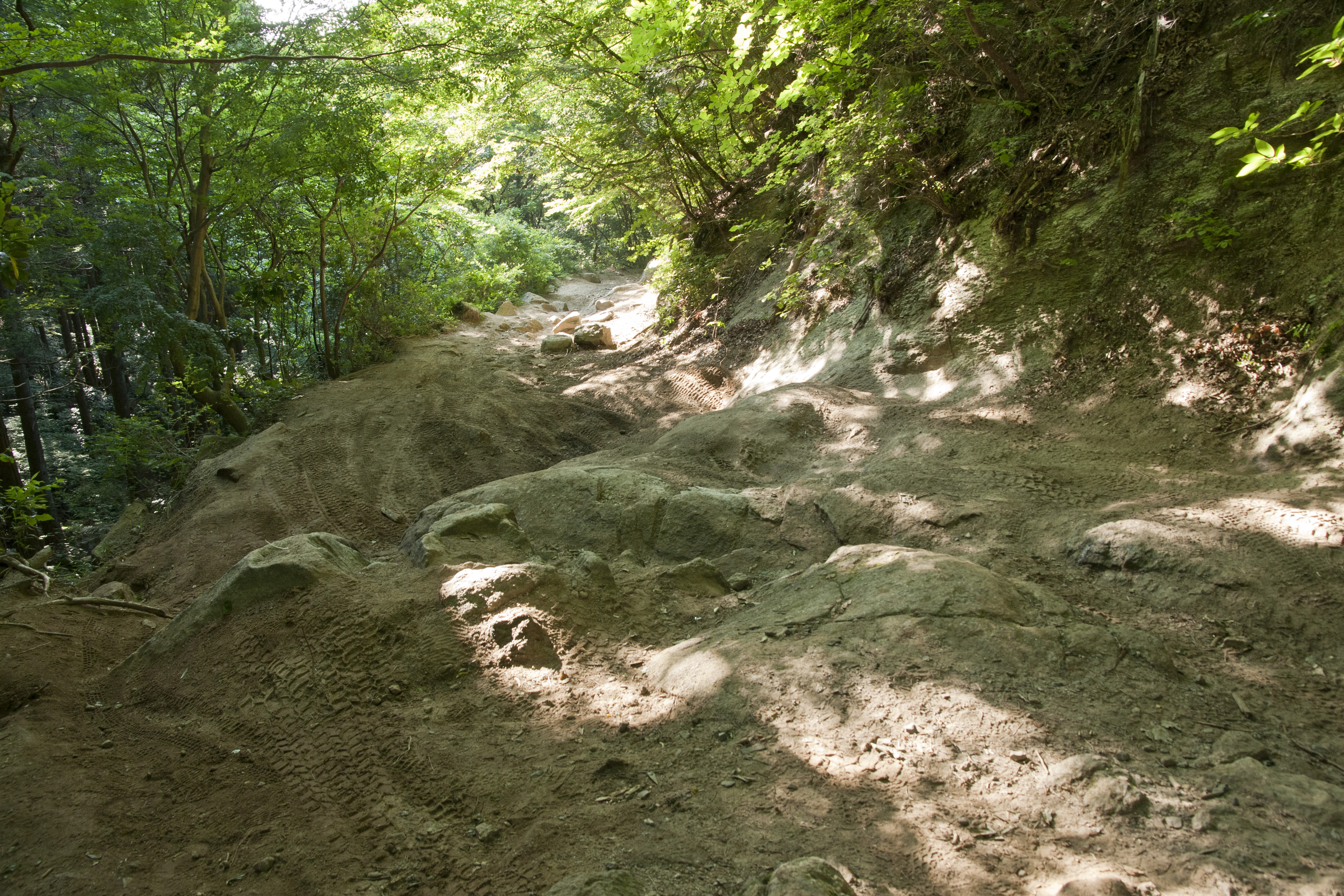 Ibaraki prefectural Road Route-218, Sakuragawa City, Ibaraki Pref., Japan